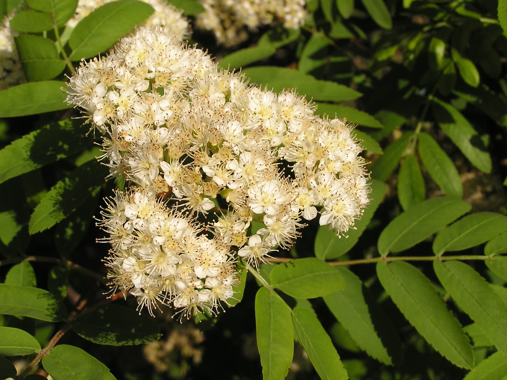 European Rowan